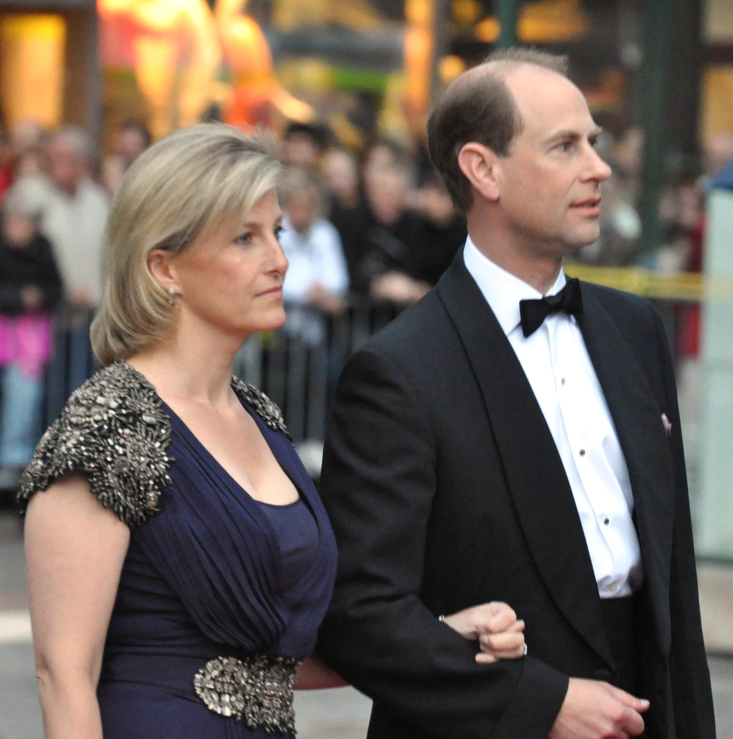 Wedding of Victoria, Crown Princess of Sweden, and Daniel Westling; Arrival of members for the Gouvernment and Swedish and foreign guests of hounour to the Riksdag's Gala Performance at Konserthuset